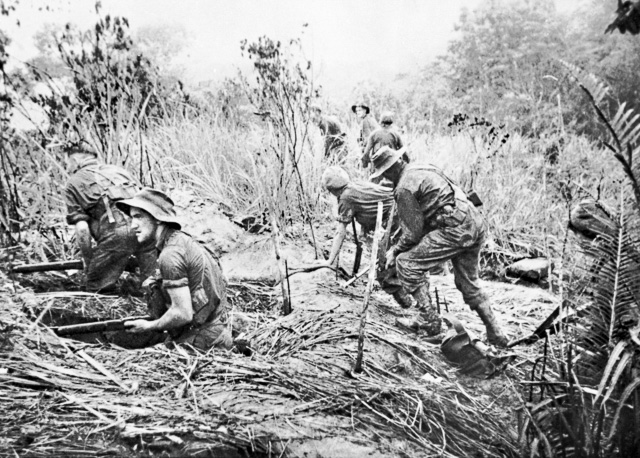 Commandos from the Australian 2/3rd Independent Company take up positions in weapon pits during an attack on Timbered Knoll, north of Orodubi (between Mubo and Salamaua), New Guinea.